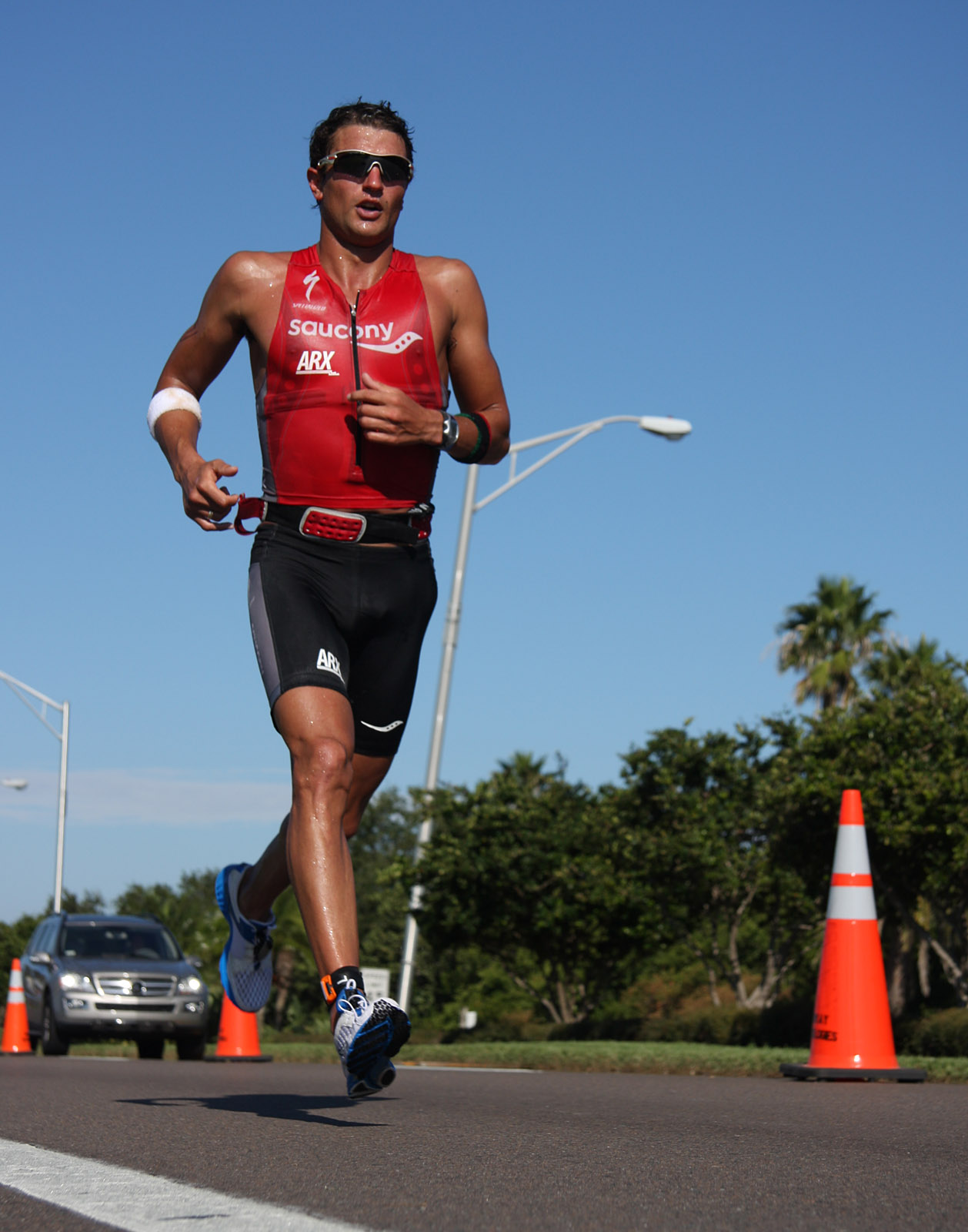 Terenzo Bozzone, at the Clearwater Memorial Causeway, on his way to winning the 2008 Ironman 70.3 World Championship held in Clearwater, Florida, USA.